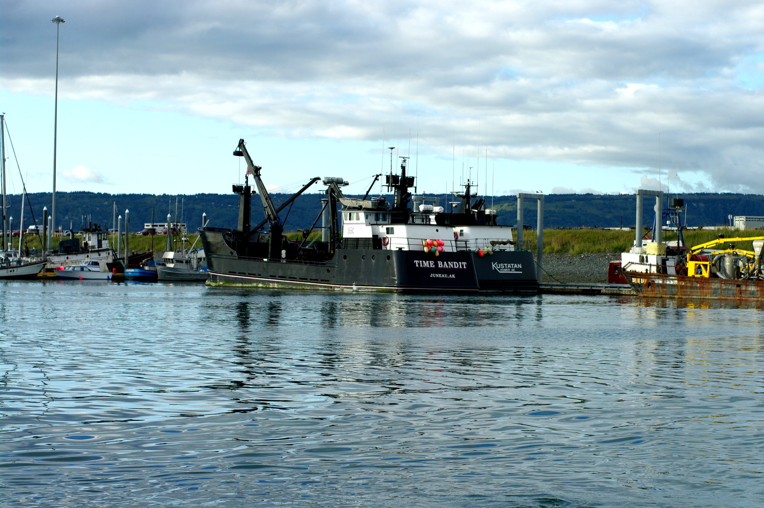 Time Bandit is featured on Deadliest Catch